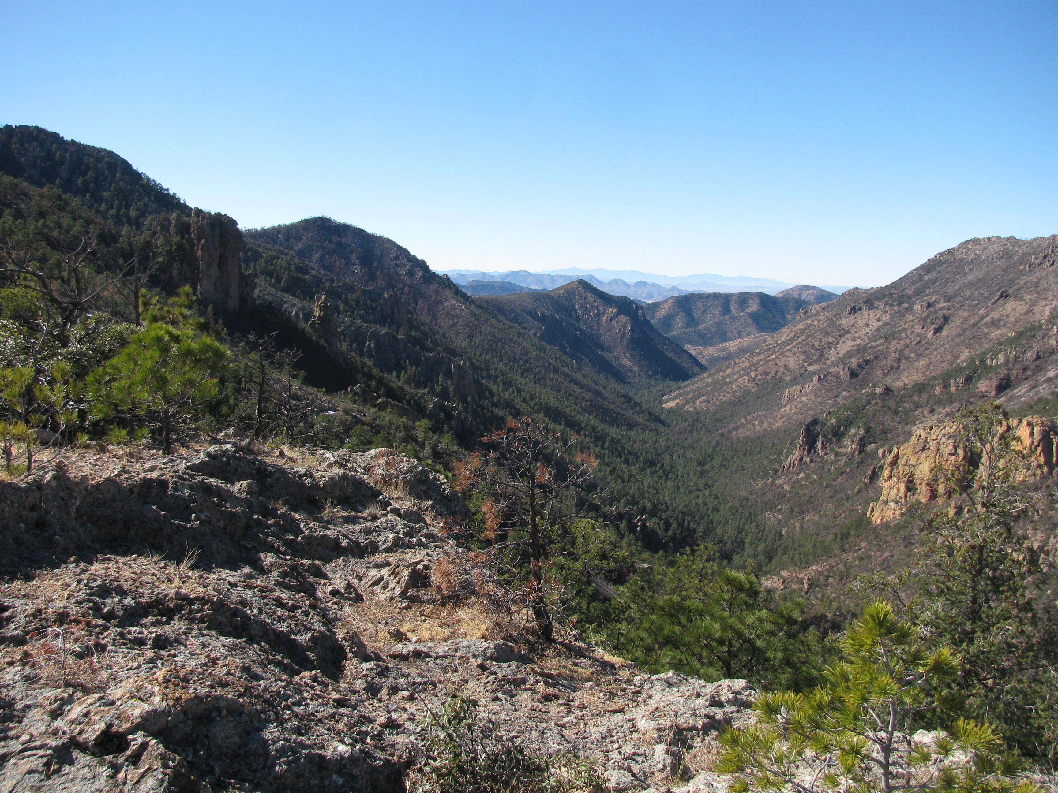 A view down Rucker Canyon after the Horseshoe two fire.